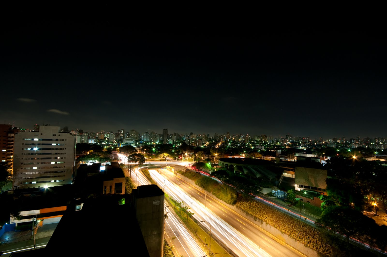 Night shot of Av. Rubem Berta